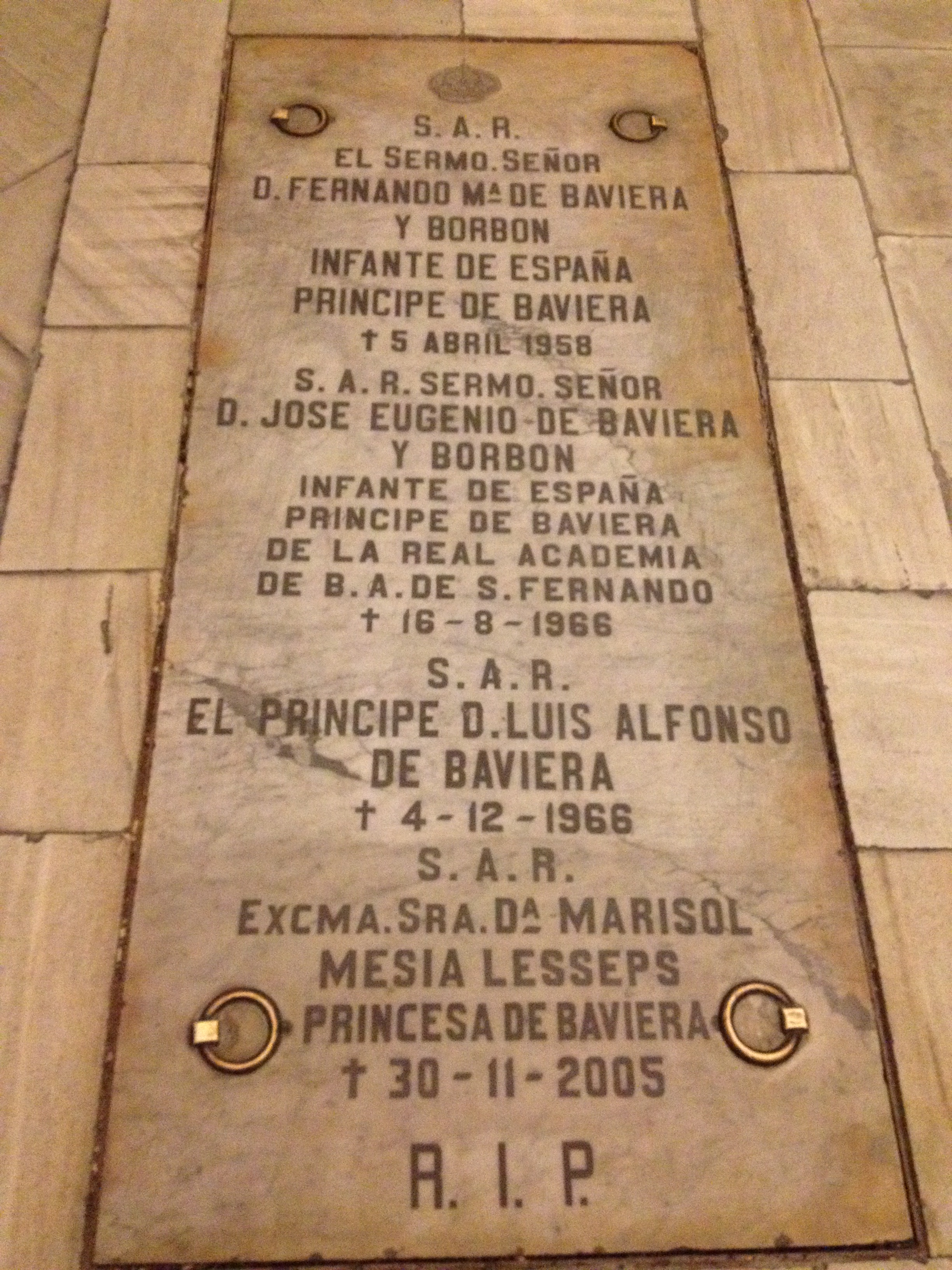 Tombs of members of the Spanish branch of the Bavarian Royal Family